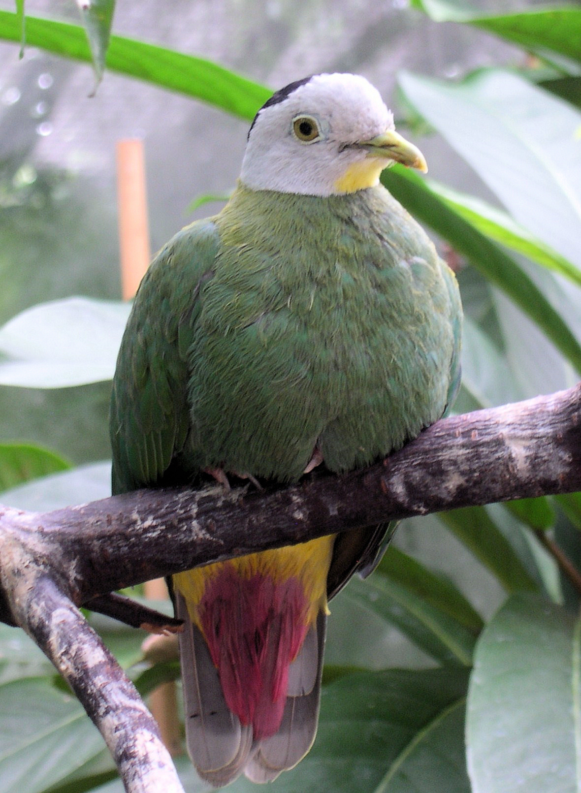 A male black-naped Fruit-dove (Ptilinopus melanospilus)